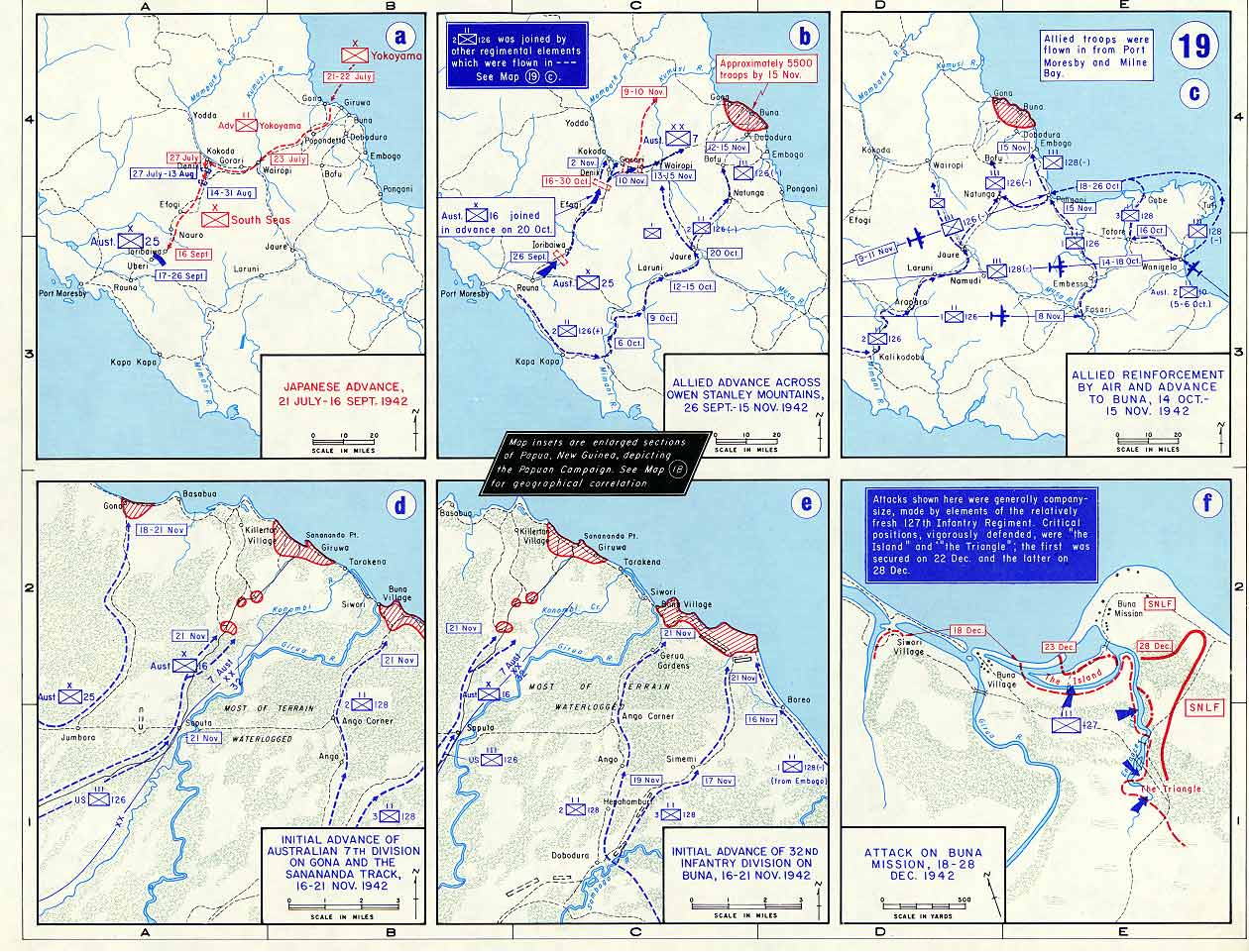 Papuan Campaign, 1942